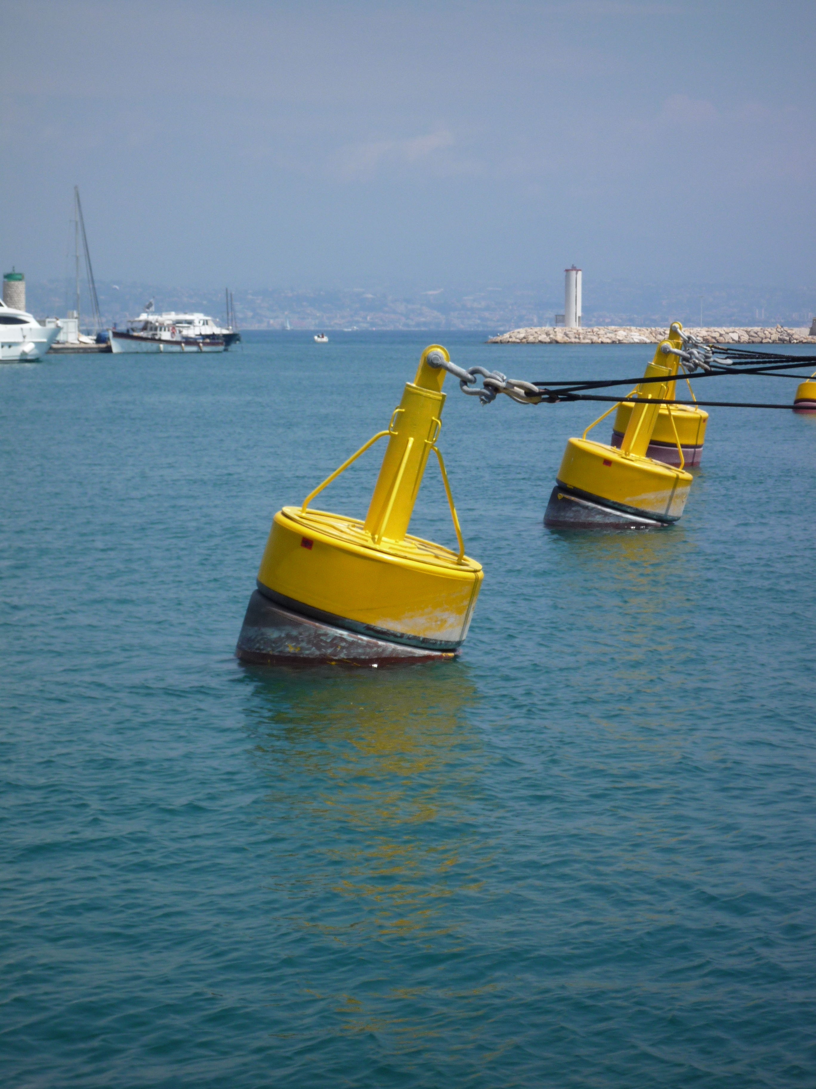 Mooring buoys at the port of Antibes.